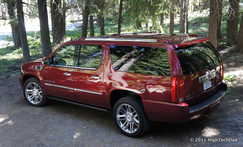 Pictures from a 7-day test drive of the 2011 Cadillac Escalade ESV Platinum Edition. More details and a video can be found at